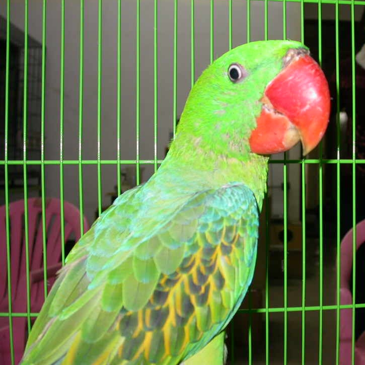 Great-billed Parrot (also known as Moluccan Parrot or Island Parrot) in a cage.